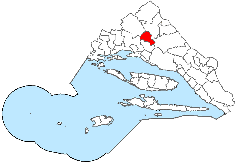 Position of municipality inside Split-Dalmatia County